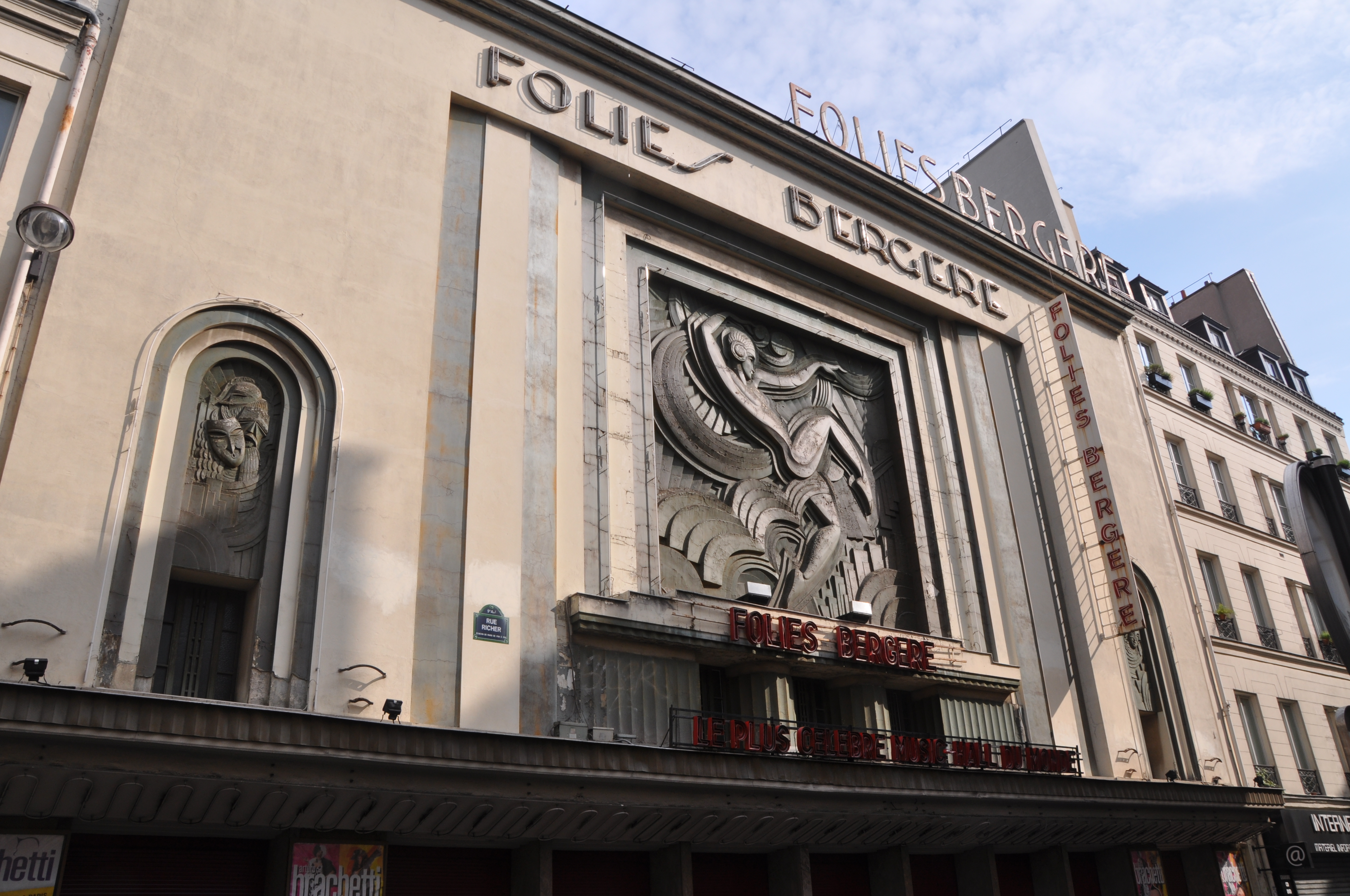 Facade of french cabaret "folies-Bergère", april 2011